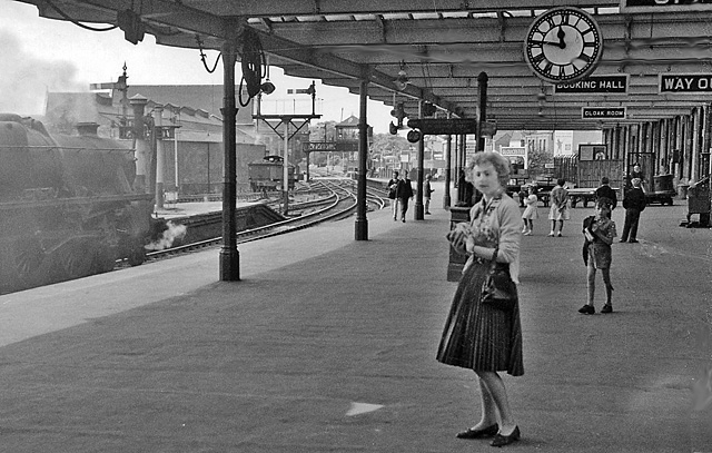 Gloucester Eastgate Station. View SW, to Barton St. Crossing and towards Tuffley Junction and Bristol; ex-Midland Birmingham - Gloucester - Bristol main line. Gloucester (Midland, Eastgate in BR days) was on the 1854 Tuffley Loop (Tramway Junction - Tuffley Junction) until 1974-5 when the Loop, this Station and everything was razed to the ground and covered with roads etc., the present new Gloucester Station being the rebuilt former Great Western Station (Central in BR days), opened in December 1975 and became the only - and very awkward - Station, forcing most trains to reverse in Gloucester. On the left, a Stanier Class 5 4-6-0 is arriving with a Down express: beyond it a Midland 0-6-0 stands on the Goods lines; ahead Barton Street Box can be seen on its gantry. (The lady prominent in the foreground was my fiancée!).